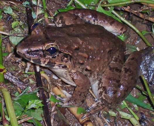 Limnonectes macrodon, from Cimande, Bogor, West Java